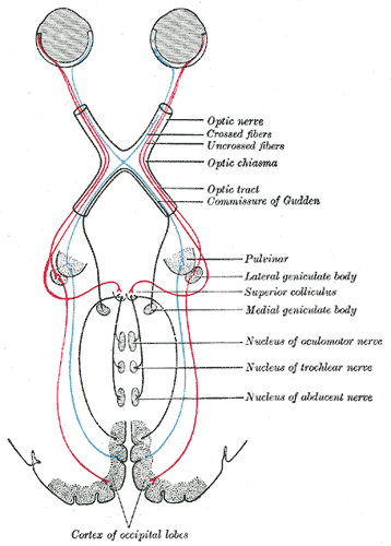 Scheme showing central connections of the optic nerves and optic tracts.